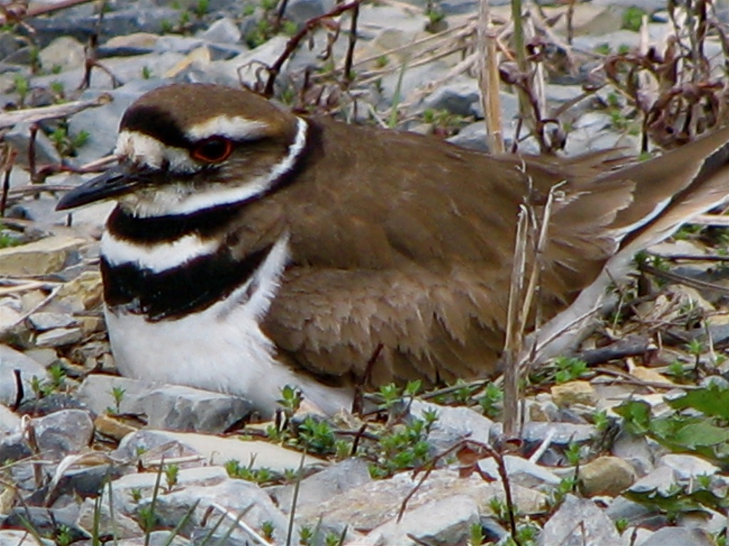 Killdeer (Charadrius vociferus) in Potts Grove, Pennsylvania, USA. Female on nest.